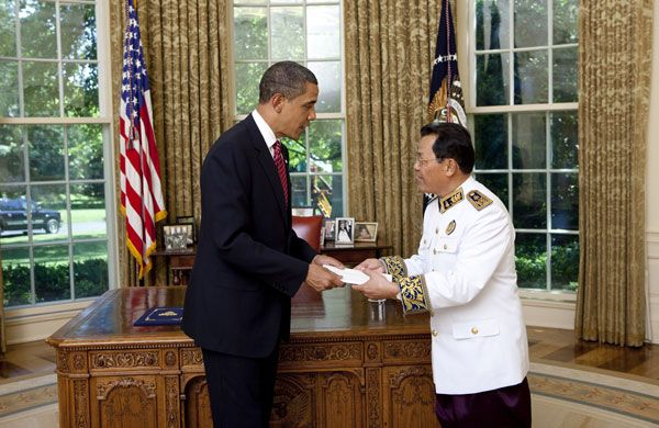 President Barack Obama welcomes Ambassador Hem Heng of the Kingdom of Cambodia to the White House Wednesday, May 20, 2009, during the credentials ceremony for newly appointed ambassadors to Washington, D.C.